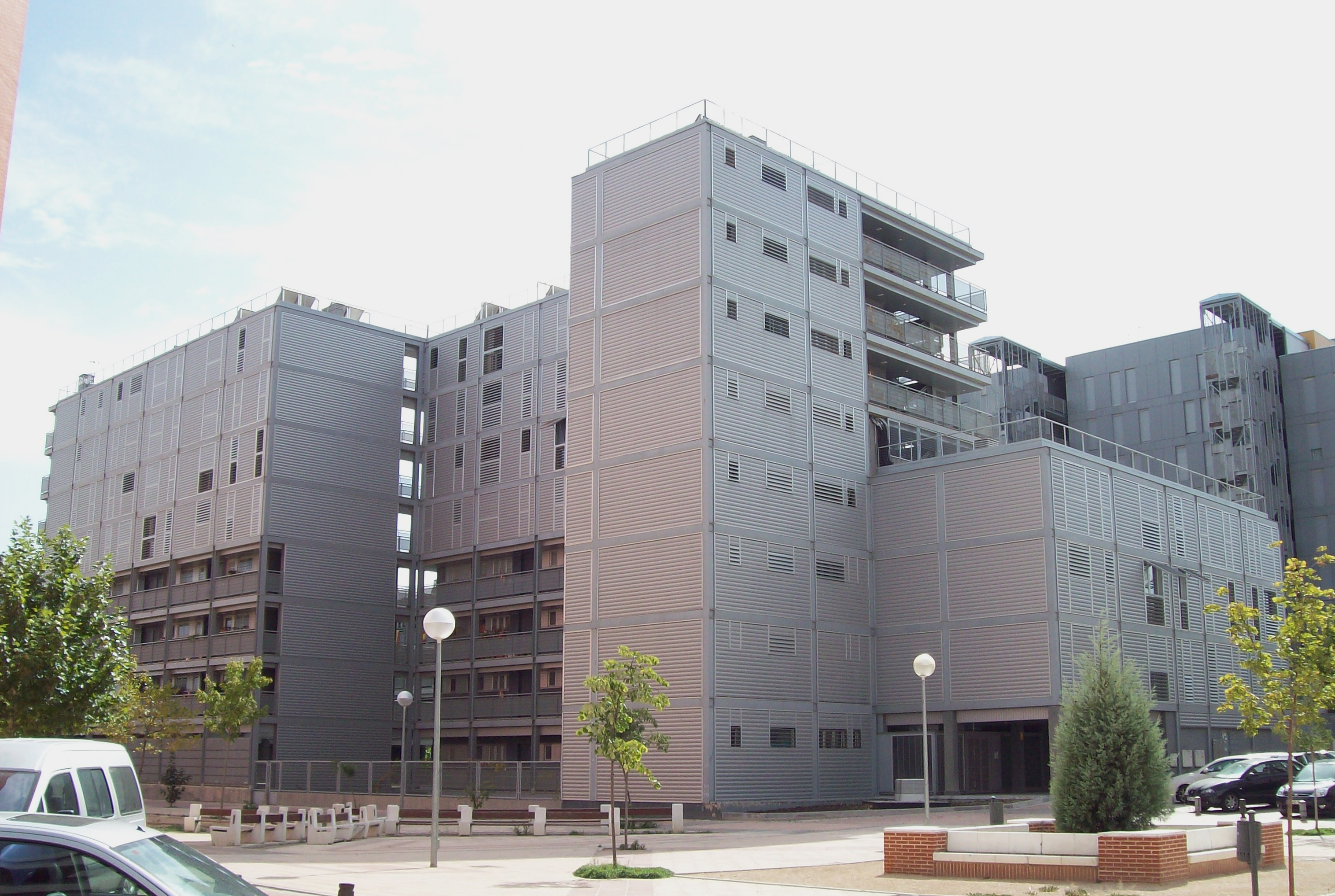 View of Vallecas 12 building in Madrid (Spain) from the north-east angle.